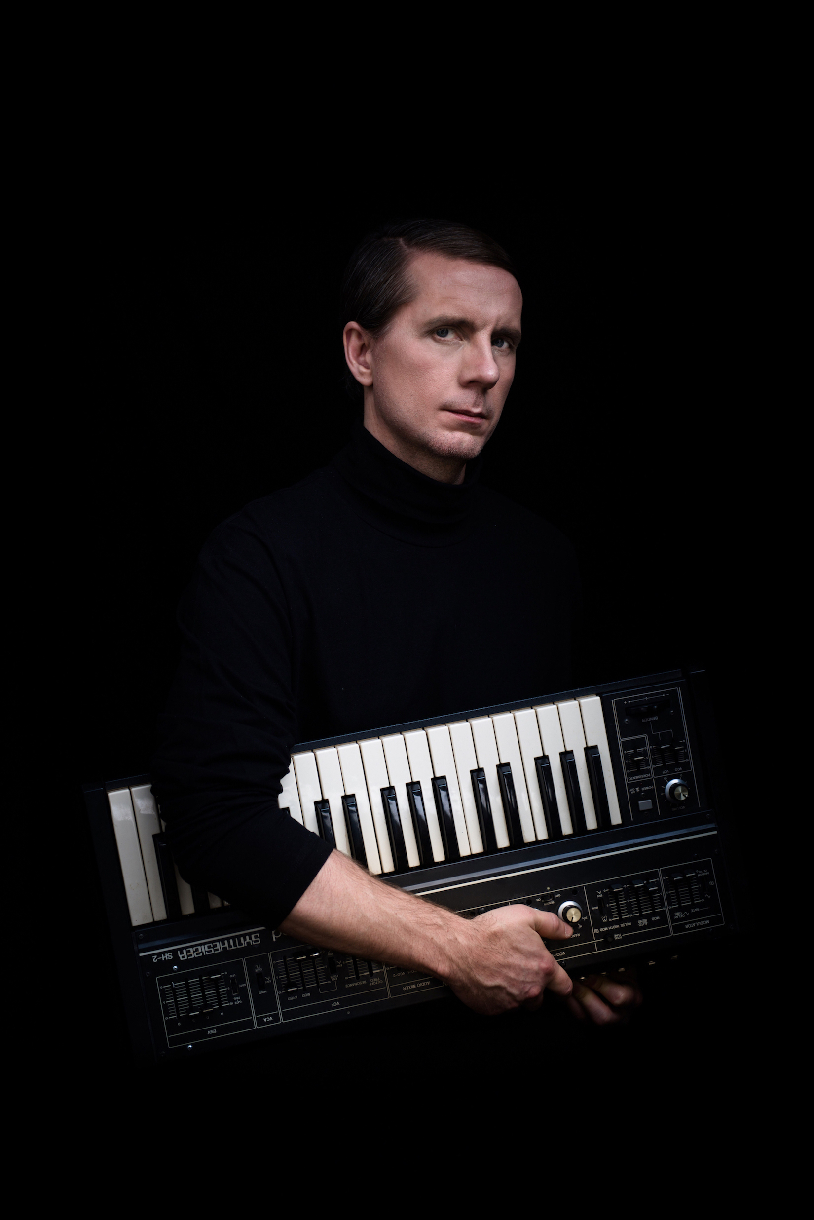 Claes Björklund, photo by John Strandh